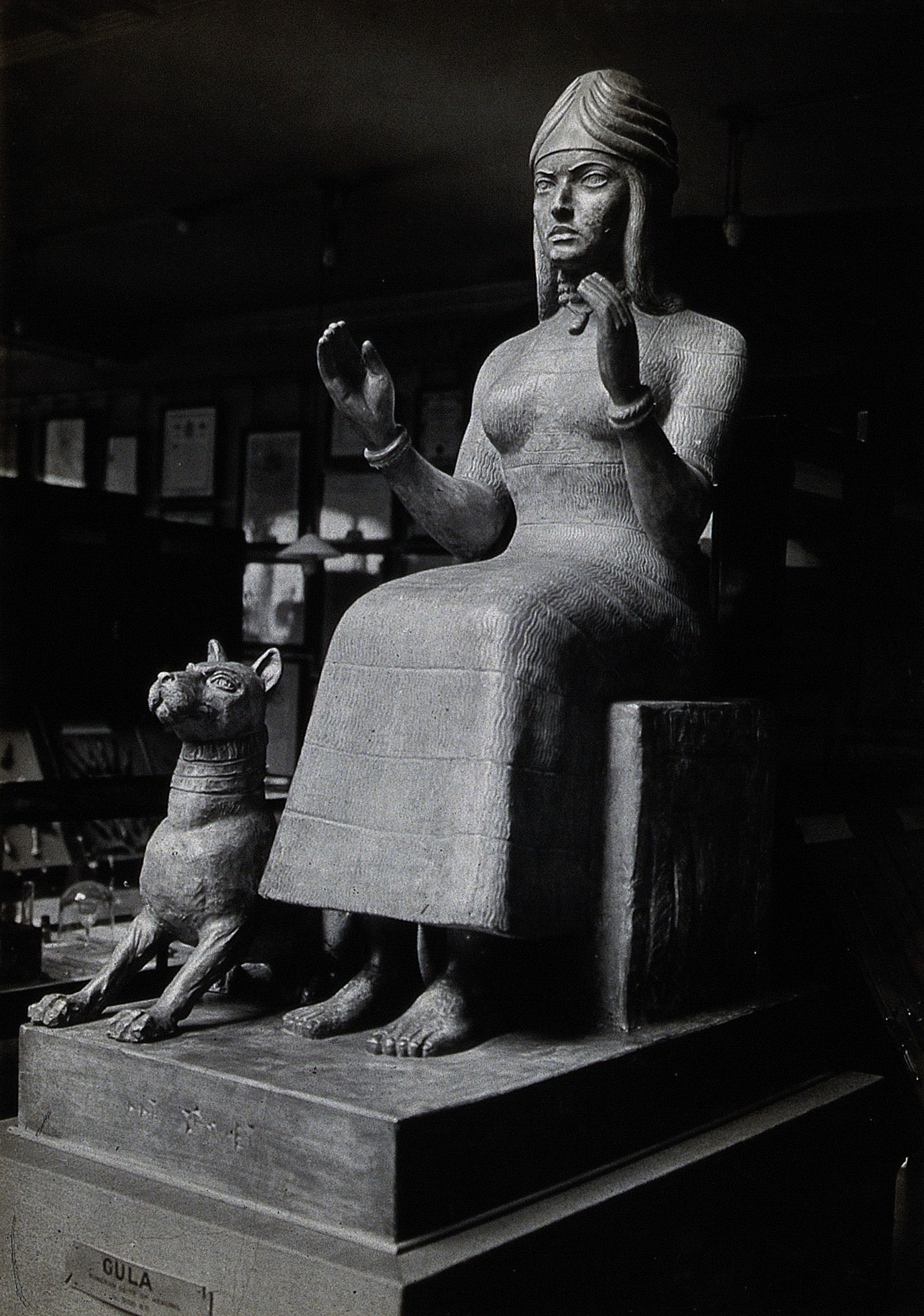 A sculpture of Gula, Sumerian deity of healing: side view. Photograph. Iconographic Collections Keywords: Wellcome Historical Medical Museum (London)